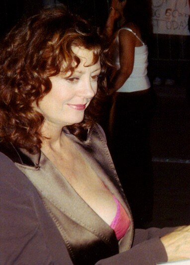 Susan Sarandon at the 2005 Toronto International Film Festival promoting Elizabethtown.Elizabethtown_014